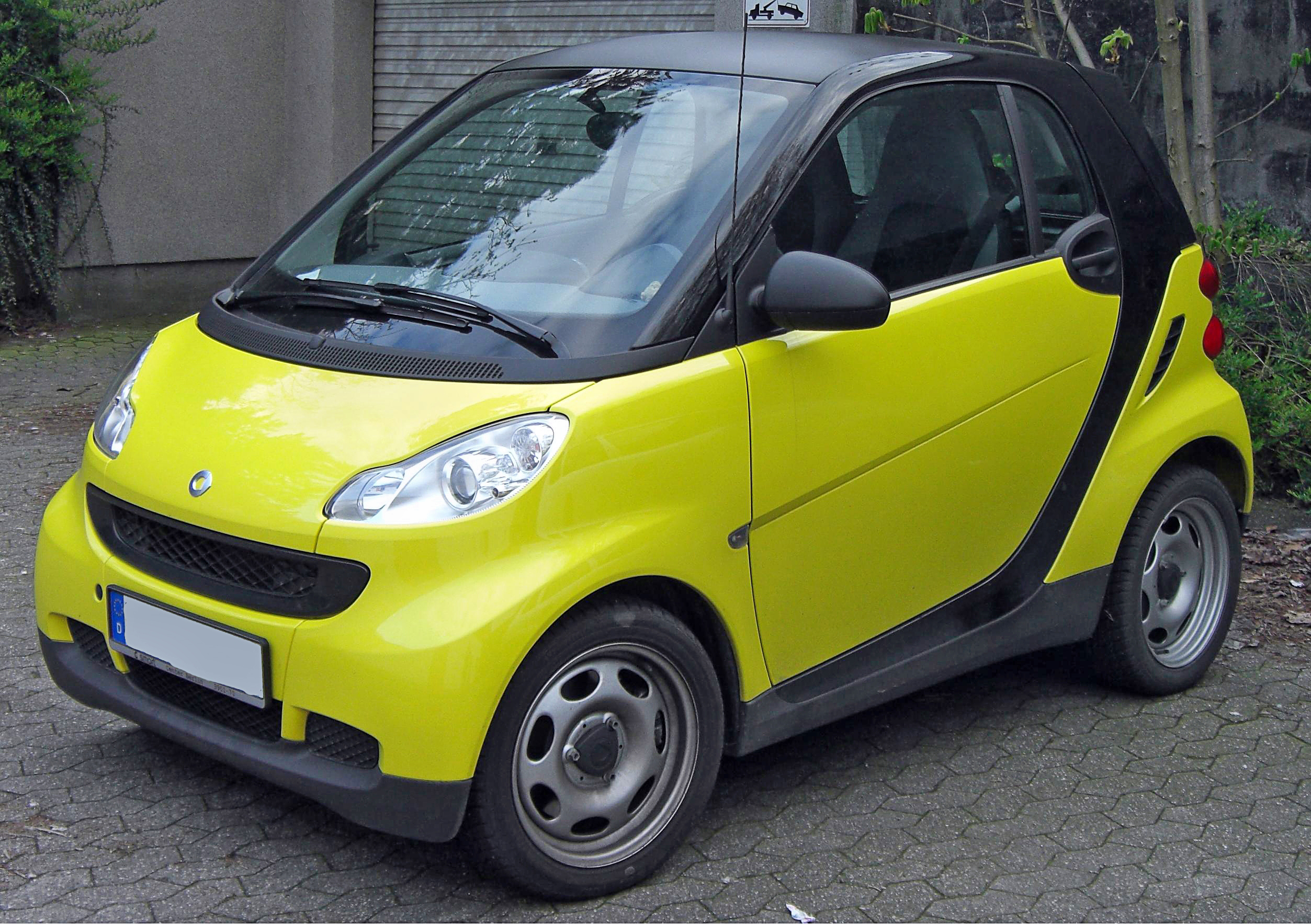 Smart Fortwo